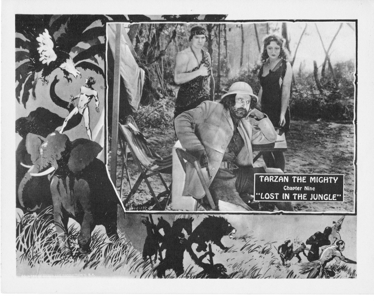 Lobby card for the American film serial Tarzan the Mighty (1928). Pictured are Frank Merrill, Natalie Kingston and Al Ferguson. The film is considered lost.